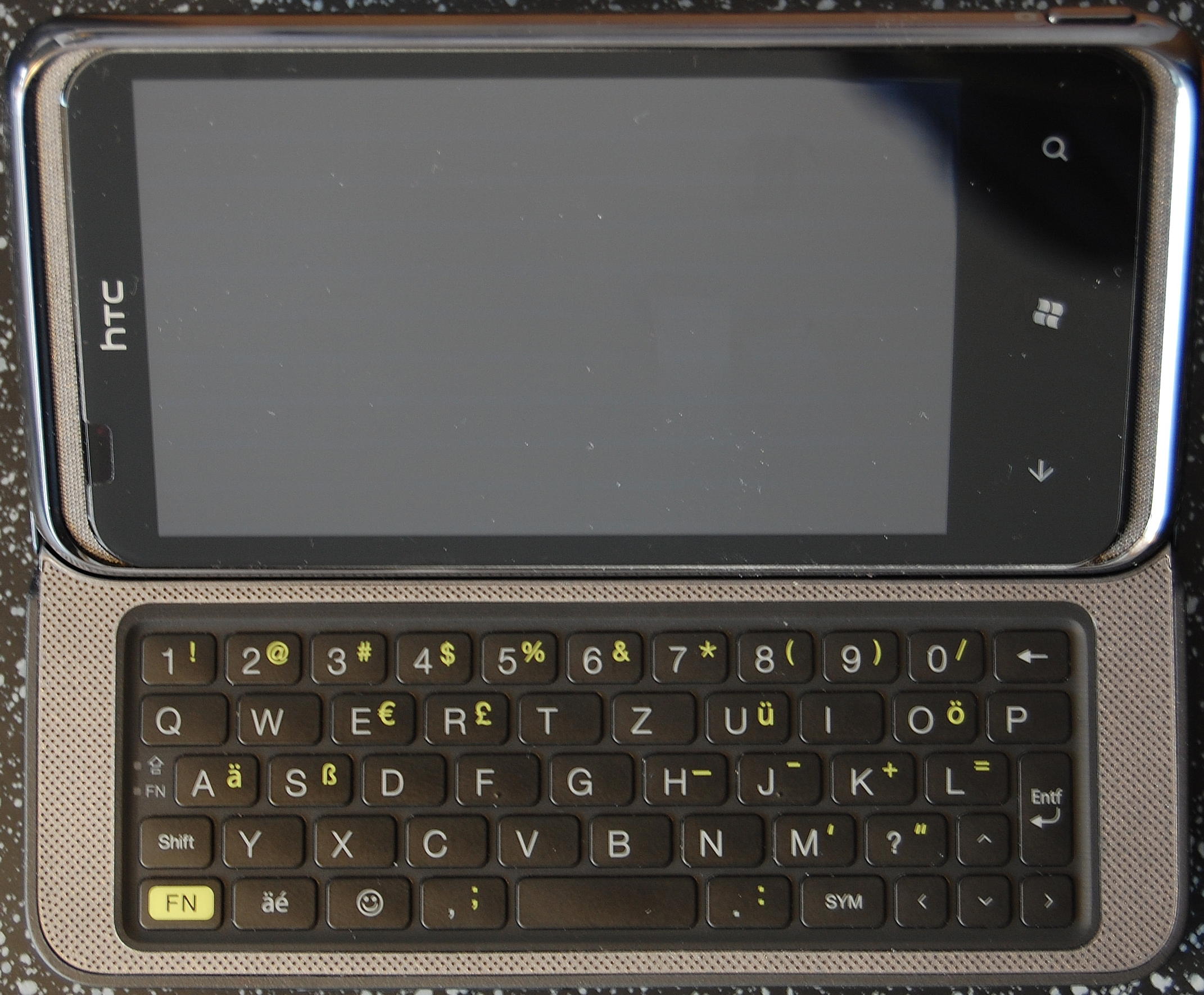 HTC 7 Pro Keyboard